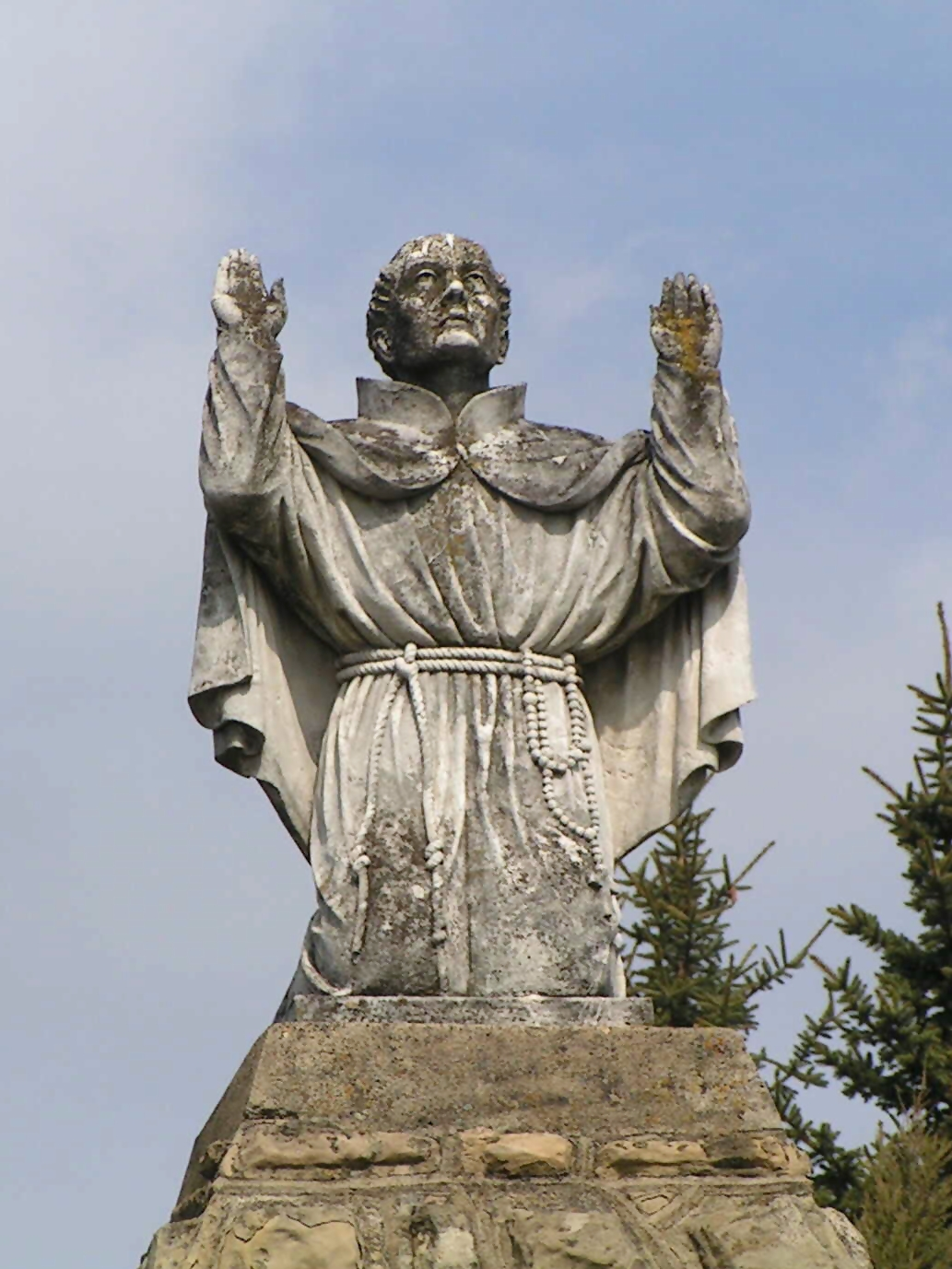 Dukla - sculpture St. John of Dukla the courtyard in front of the church of the Bernardine Fathers